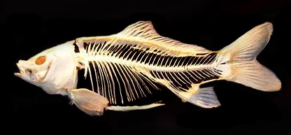 common carp (Cyprinus carpio) and below bowfin (Amia calva) skeletons, at the National Museum of Natural History, Vilhena Palace, Republic of Malta. (from a picture mad e by Emőke Dénes (cc-by-sa) 11 april 2012=